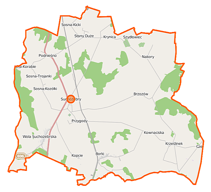 Map of Gmina Suchożebry, Poland This map of Suchożebry (gmina) was created from OpenStreetMap project data, collected by the community. This map may be incomplete, and may contain errors. Don't rely solely on it for navigation. Border coordinates52.321322.1900←↕→22.387452.2114